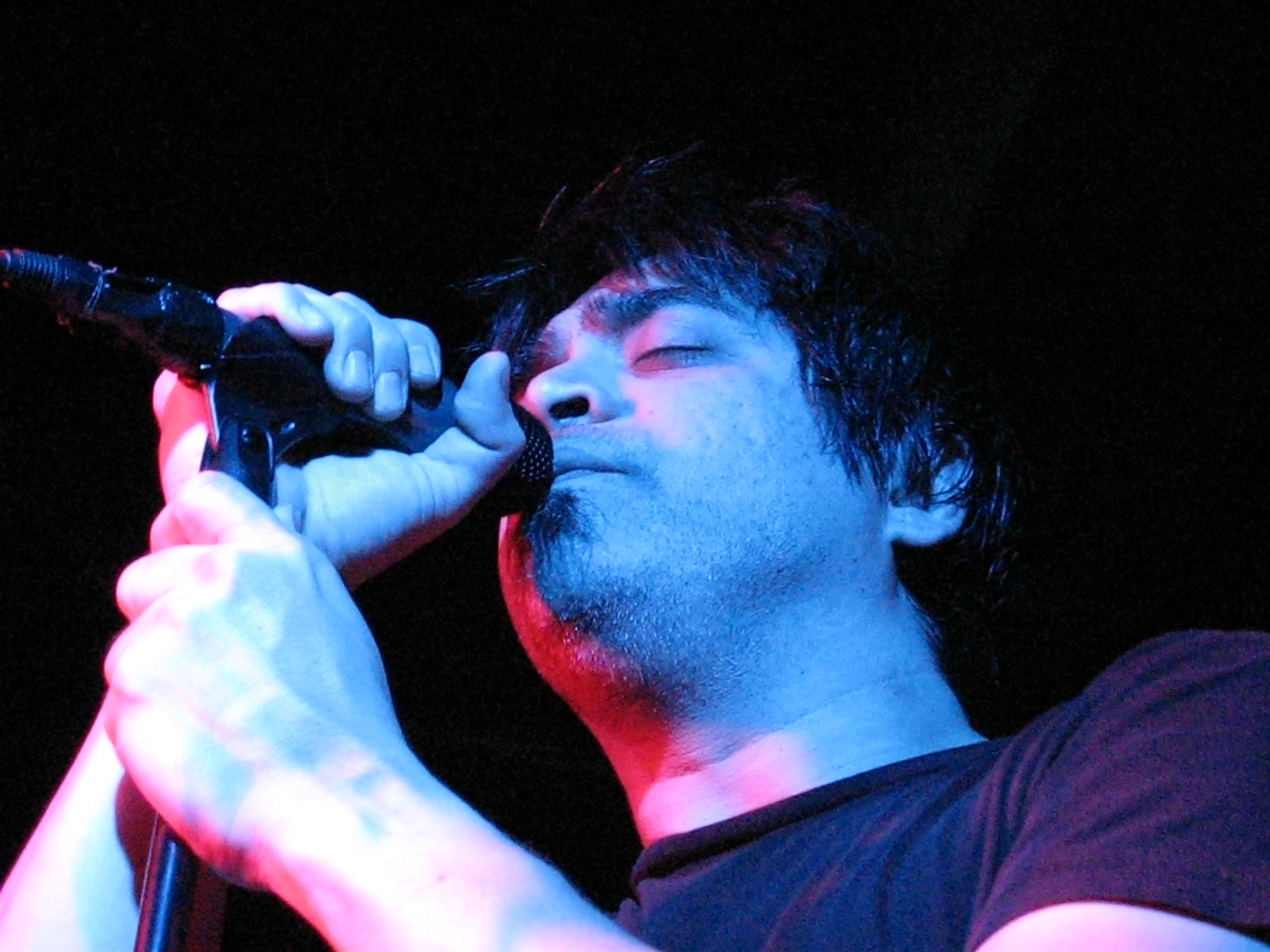 Ray Alder from Fates Warning at The Underworld in Camden, 2007-11-21.